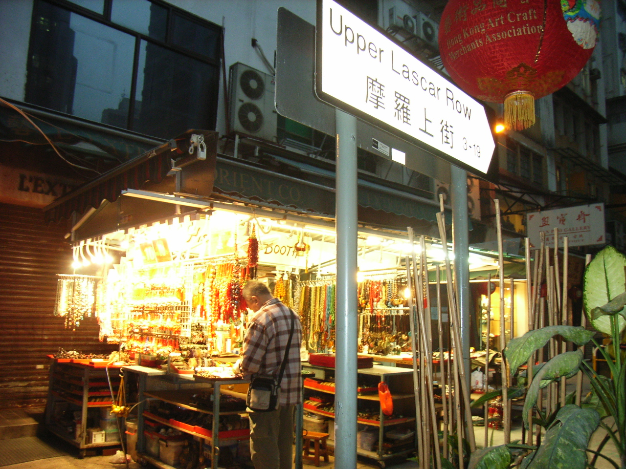 香港 上環 嚤囉街 Upper Lascar Row, Sheung Wan, Hong Kong. (Photo by me).